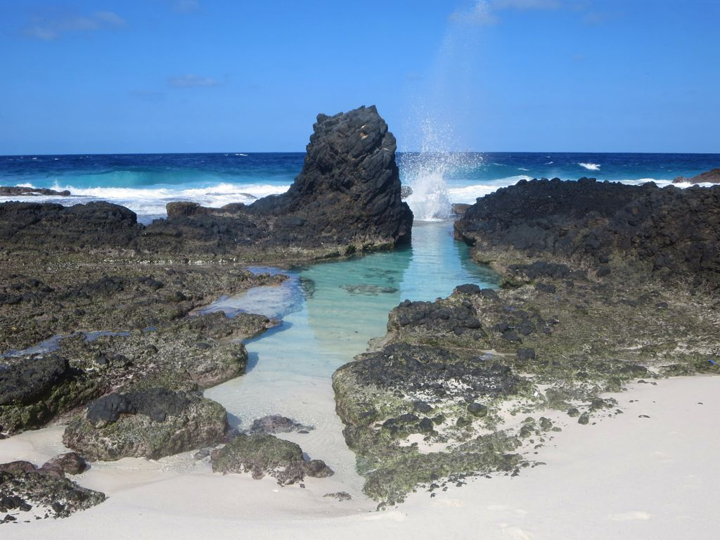 Basalt rock and coral sand combine to create an idyllic bathing pool at Dolly Beach in Christmas Island National Park, Australia.